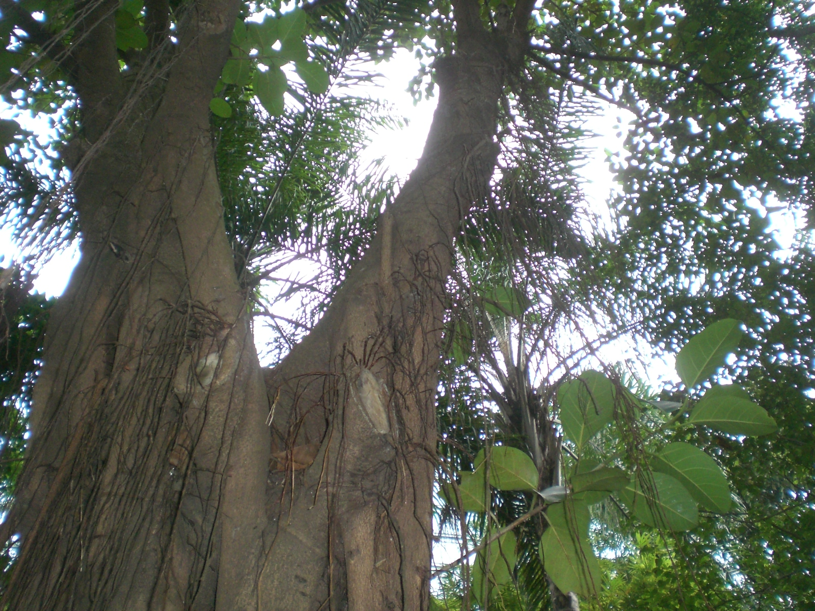 香港公園高山榕